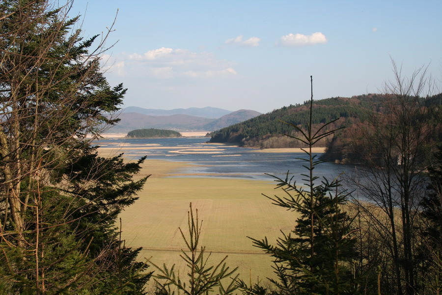 polje, “Cerknisko jezero” (jezero lake), one of several in the karstic area of Slovenia. Cerknisko jezero is a “closed depression”, its (abundant) water is solely drained through natural ponors (sinkholes in the ground, cracks and larger subterranean water ways). The polje is without water management. In wet seasons waters may rise and flood the terrain to become an intermittent lake.